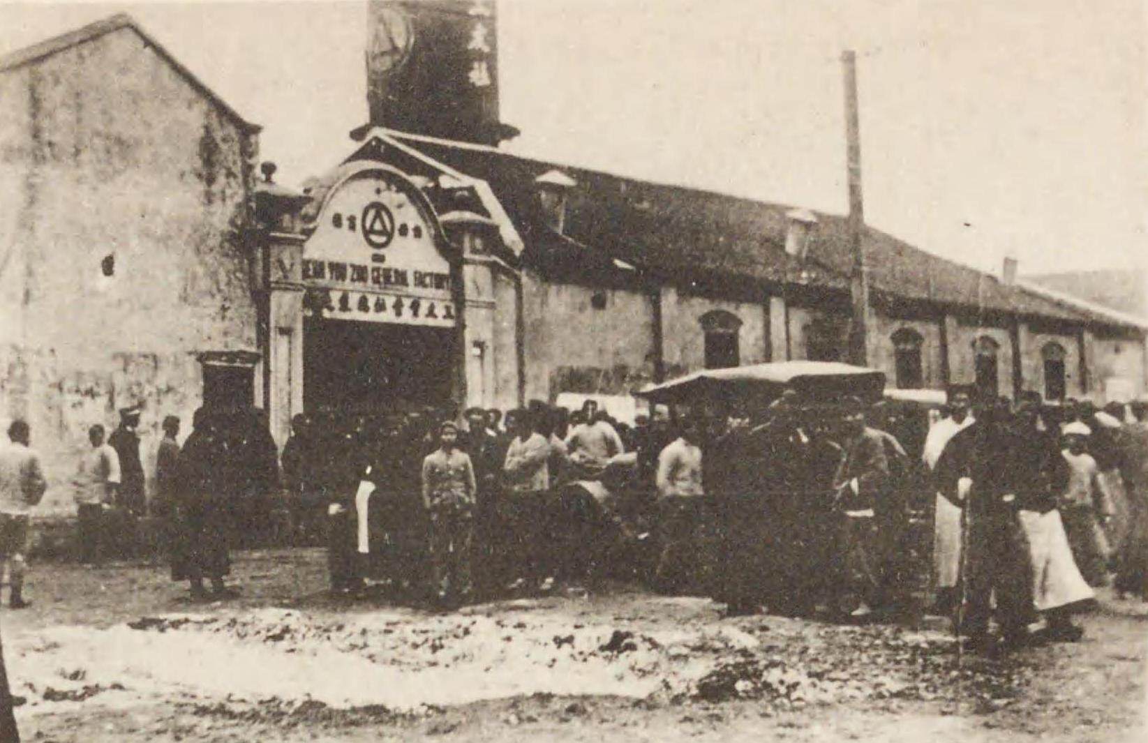 The San Yu Factory, which was attacked by the Japanese youngmen on January 20th.